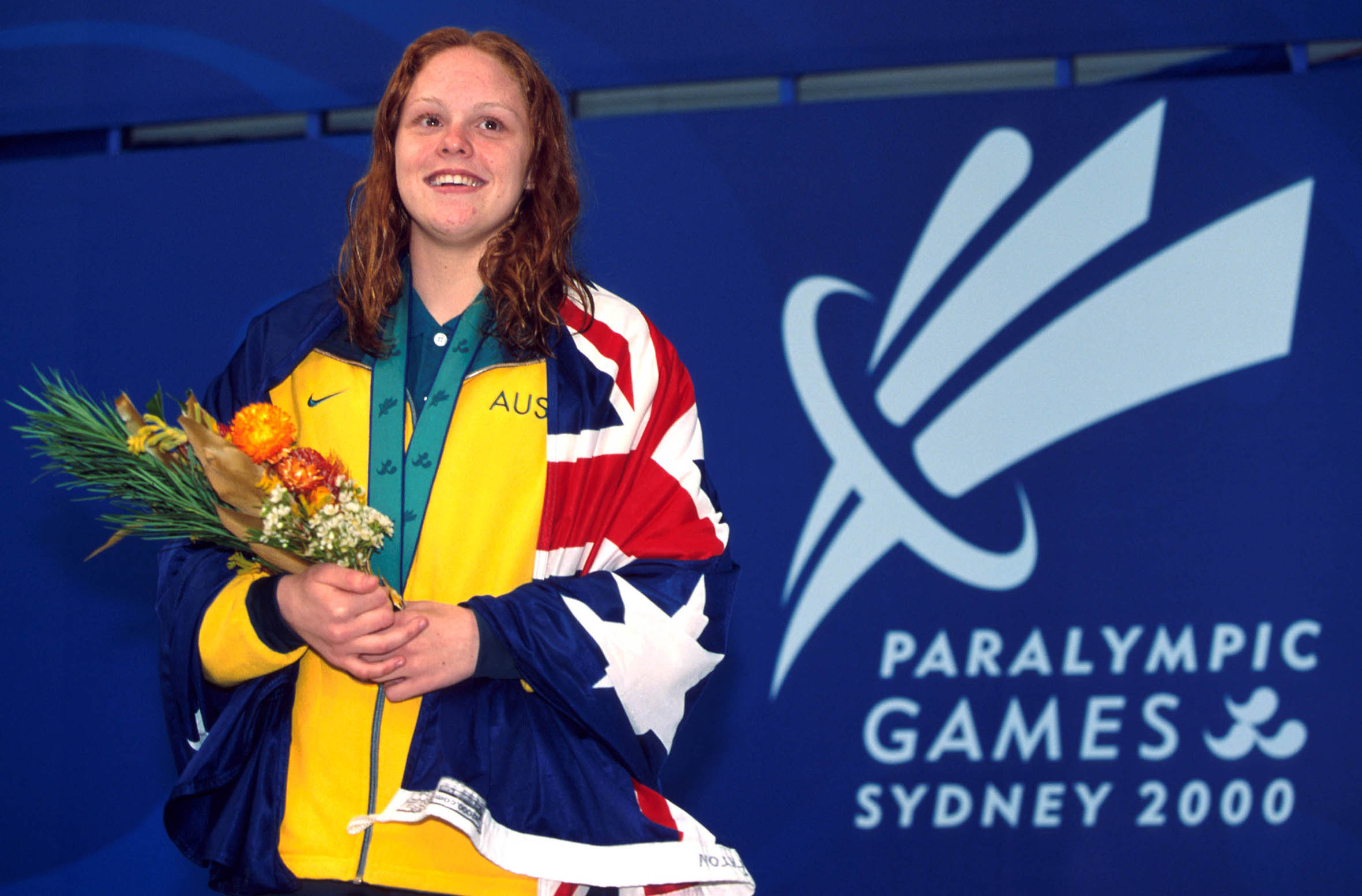 Australian swimmer Siobhan Paton smiling on the medal podium with the gold medal she won in the 100 m freestyle S14 at the 2000 Sydney Paralympic Games